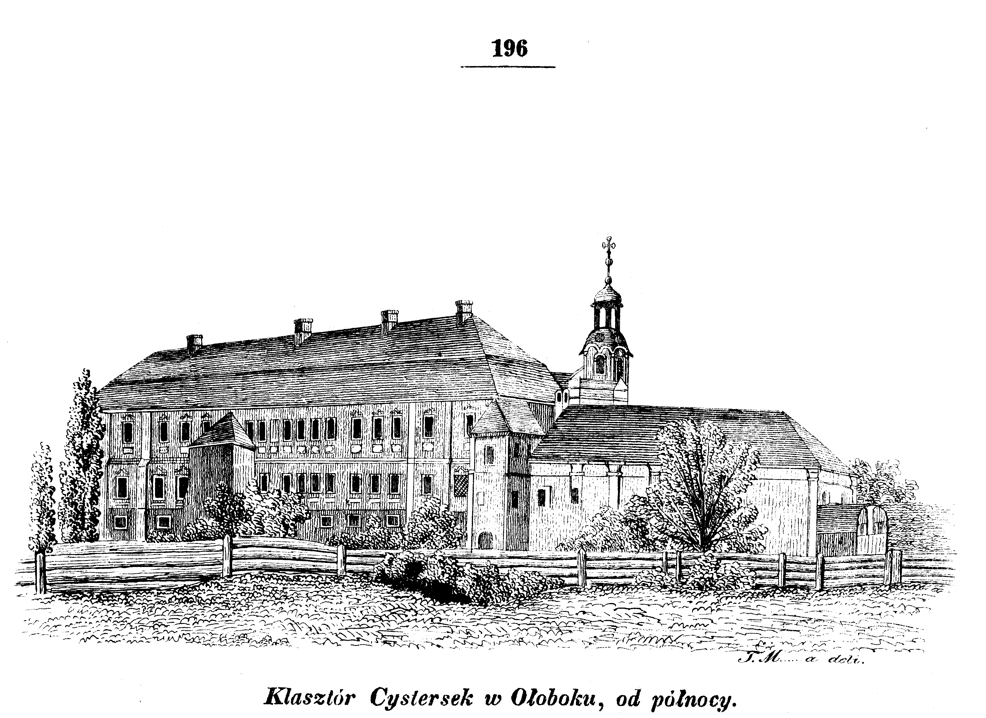 View of the Ołobok monastery from the North